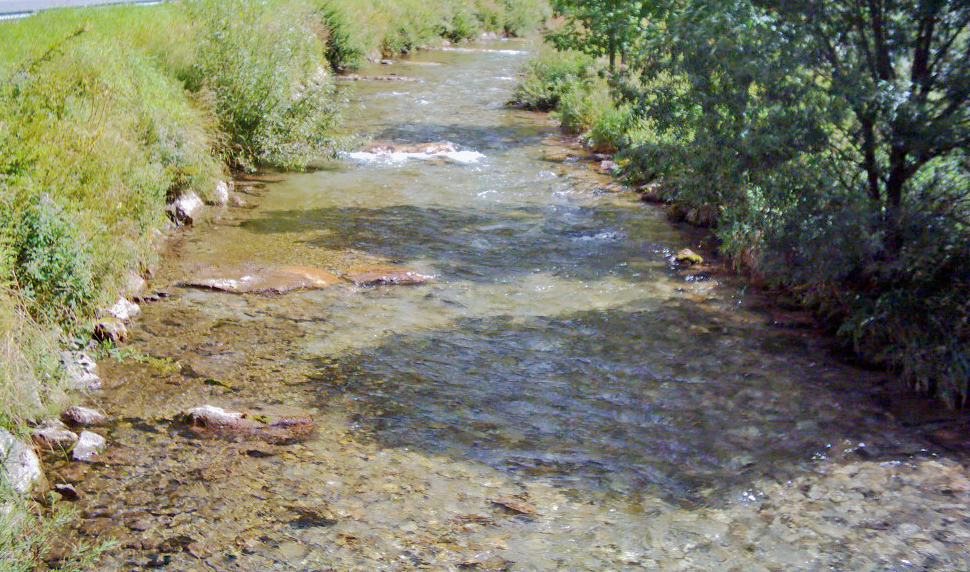 micro groins